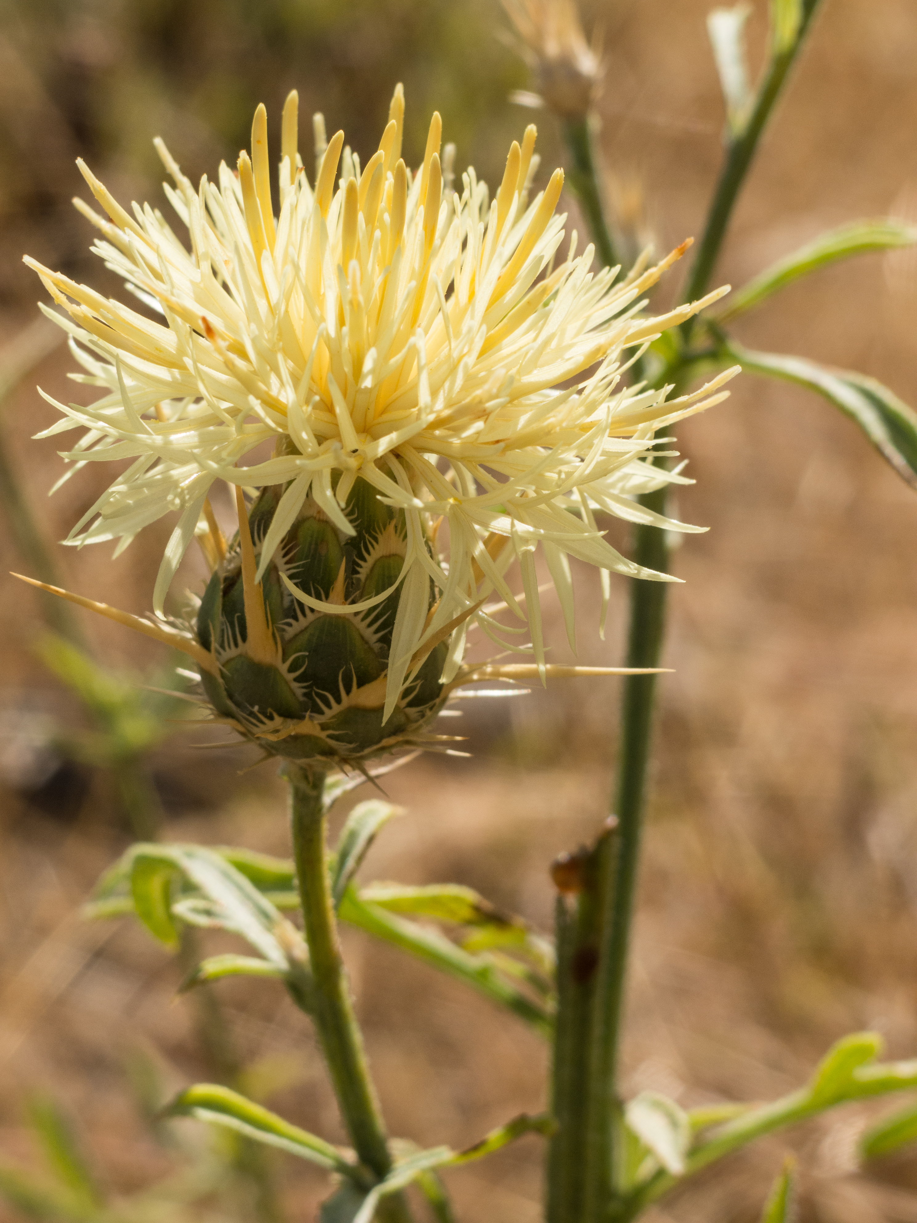 Centaurea salonitana in Greece on Lower Olymp near Palaios Panteleimonas